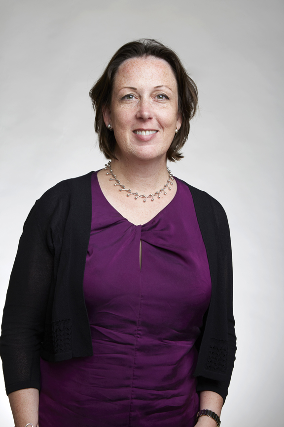 Sheila Rowan is a Professor of Physics and Astronomy at the University of Glasgow in Scotland, and director of its Institute for Gravitational Research since 2009 Attribution: The Royal Society